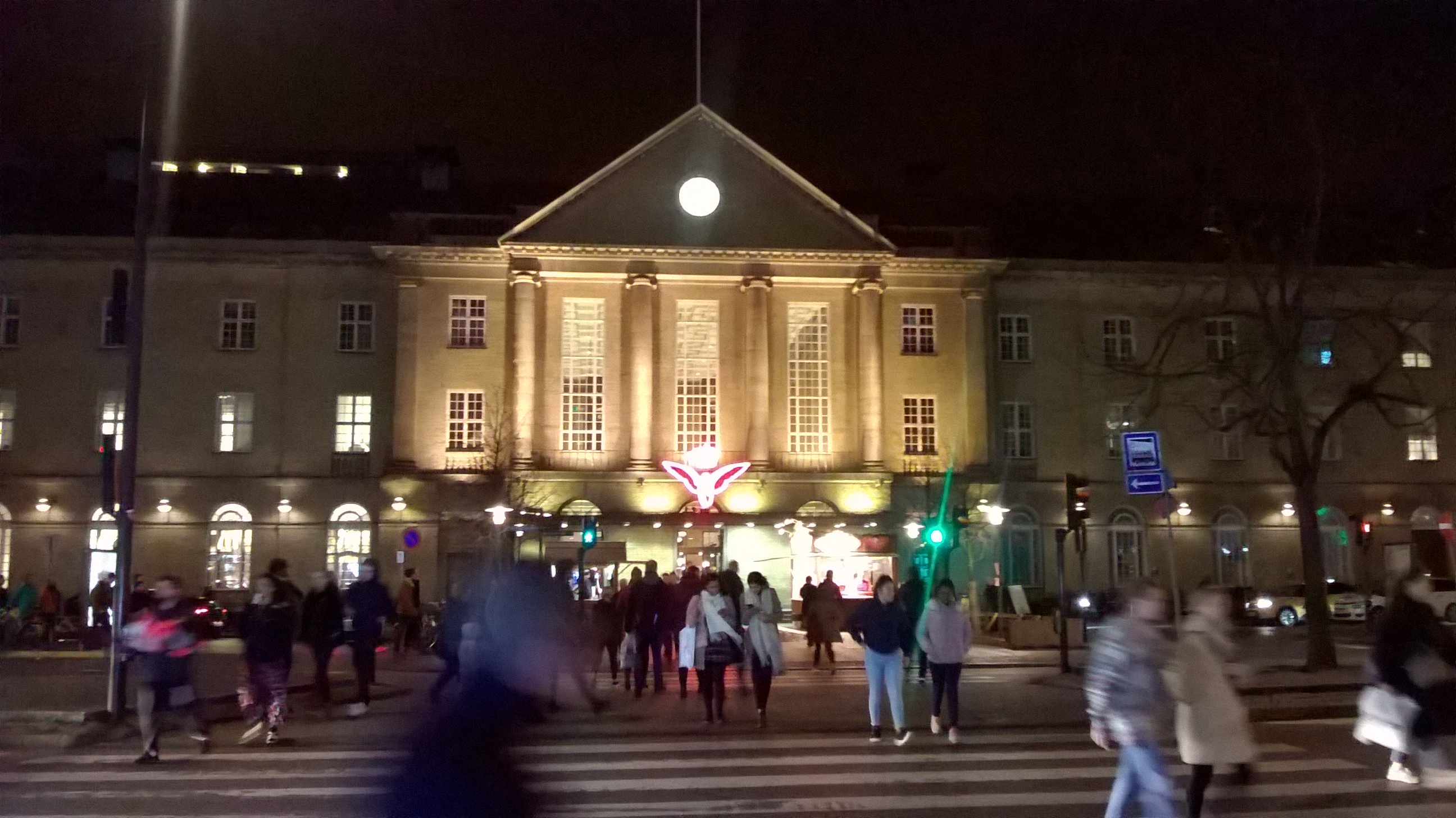 Aarhus Hovedbanegård om aftenen.